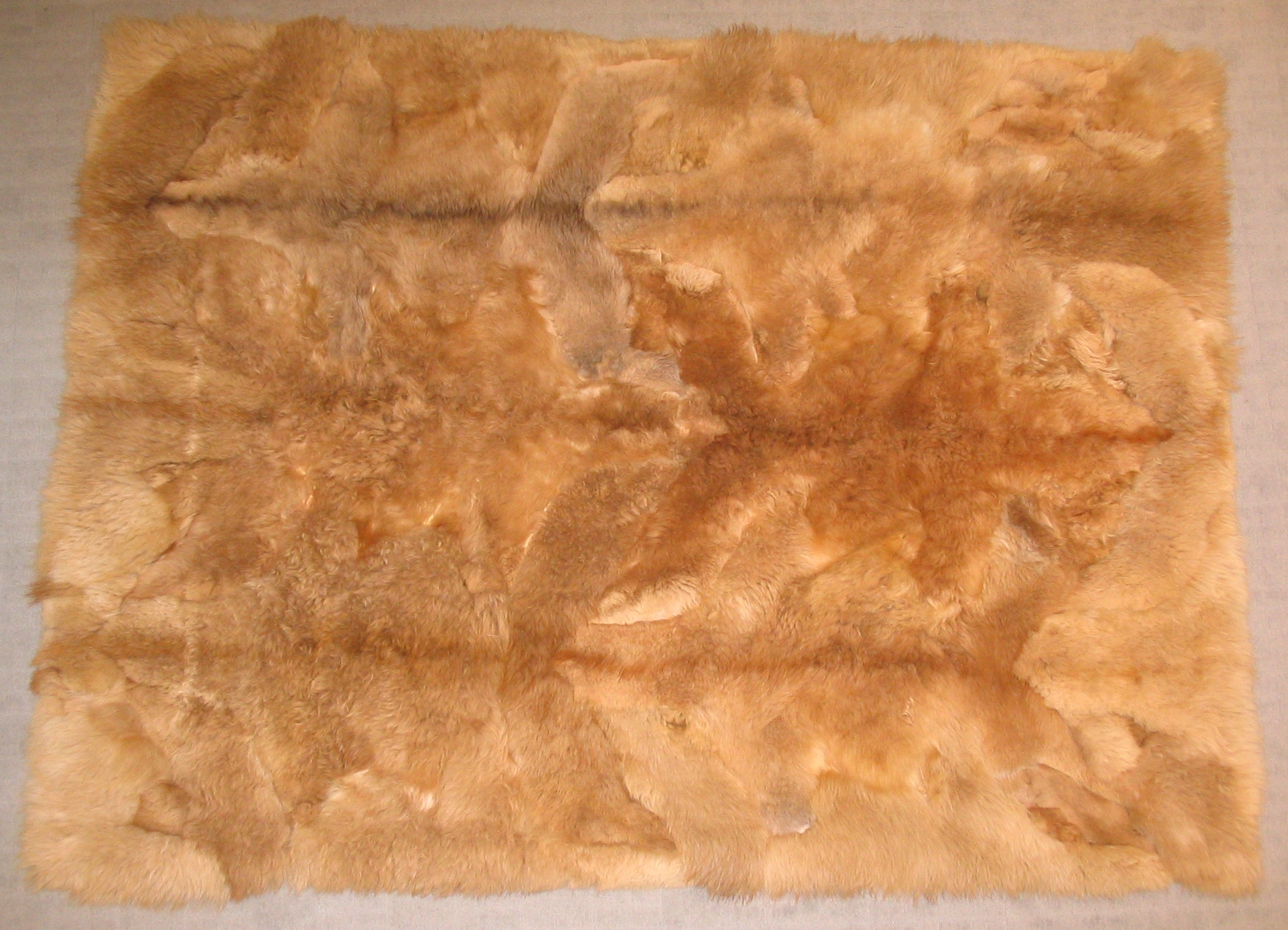 Alpaca fur plate